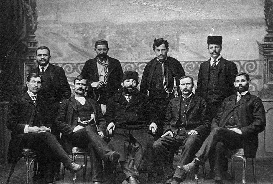 Atanasije R. Sredojevic, Jovan Cvetkovic, Kosta Presevski, Jovan Babunski, Djordje Skopljance, Gligor Sokolovic, Jovan Dovezenski, Rista Cvetkovic, Bogdan Maksimovic.